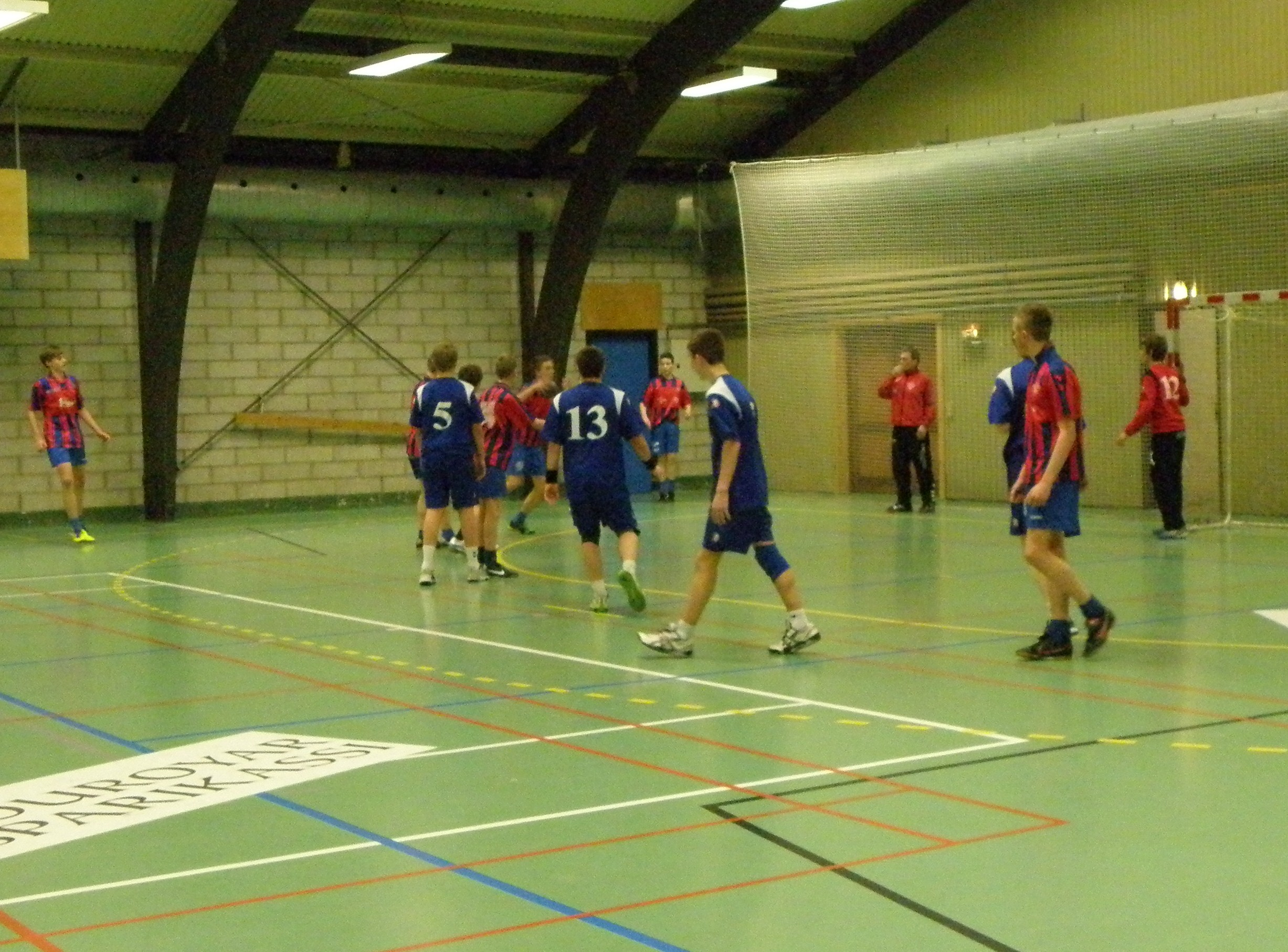 Handball match in Vágshøll Sports Hall in Vágur, Faroe Islands on 11 December 2011, boys 16, VB Vágur vs. Neistin from Tórshavn. VB are in red and blue shirts with stripes, Neistin are in blue and white shirts. Neistin comes from Tórshavn. The result of this match was 22-18 to VB Vágur. Føroyskt: Føroyskur hondbóltur í Vágshøll í Vági, dreingir 16 ár, VB spælir móti Neistanum úr Havn. VB vann henda dystin 22-18. Hondbóltsdysturin varð leiktur 11. desember 2011.